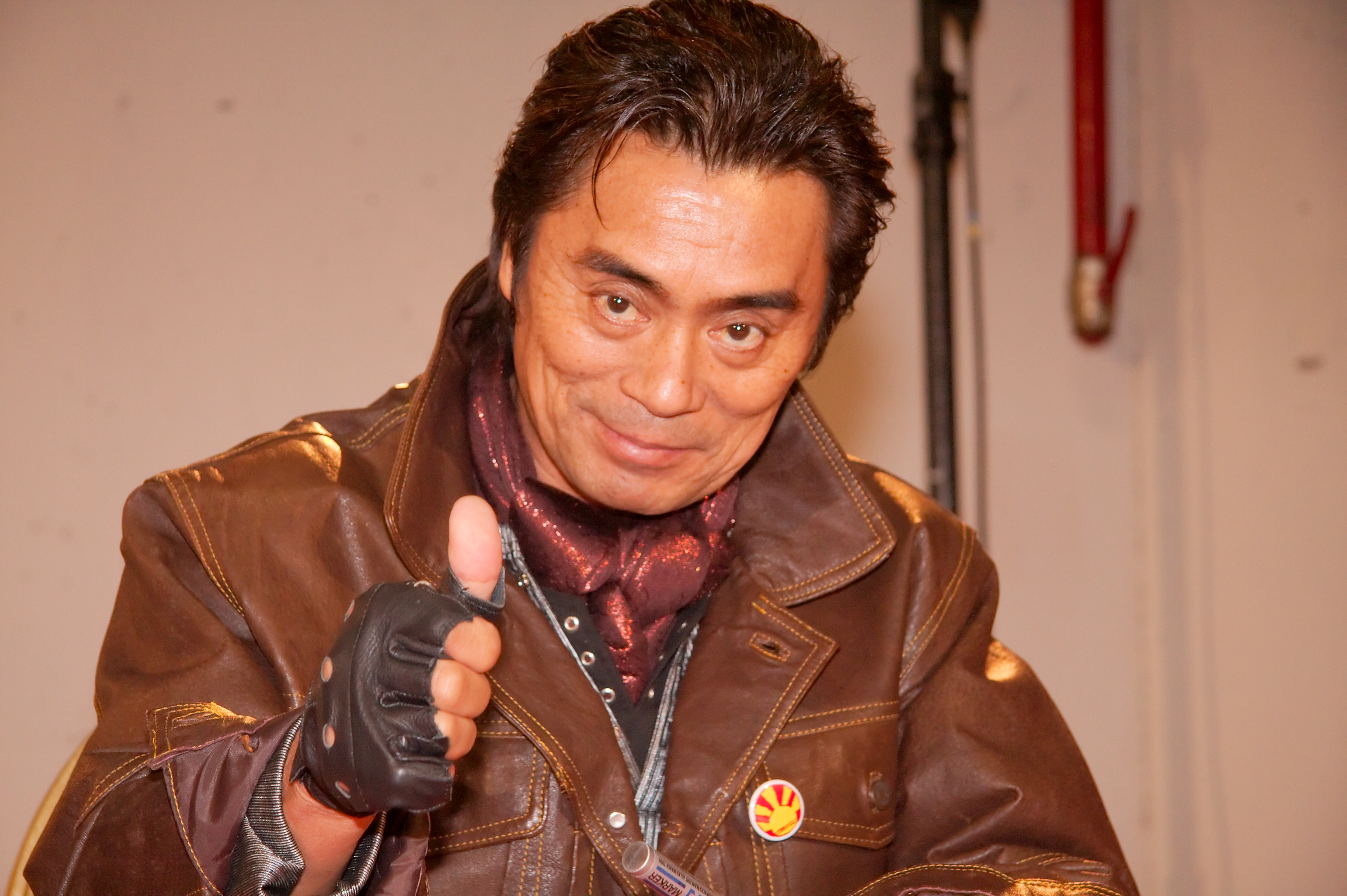 Autograph session with Kenji Ōba at Chibi Japan Expo 2008 (Paris, France).